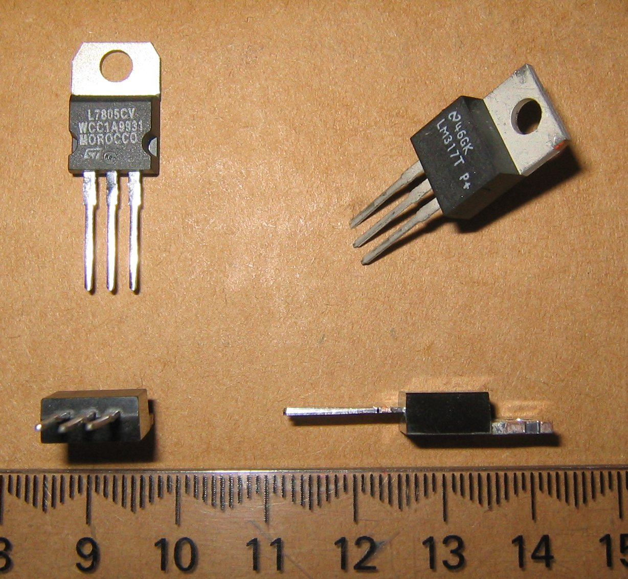 Different angles of electronic components in a TO-220 package. The different views are arranged as a third angle projection and a fourth perspective view. The ruler is marked in centimetres.